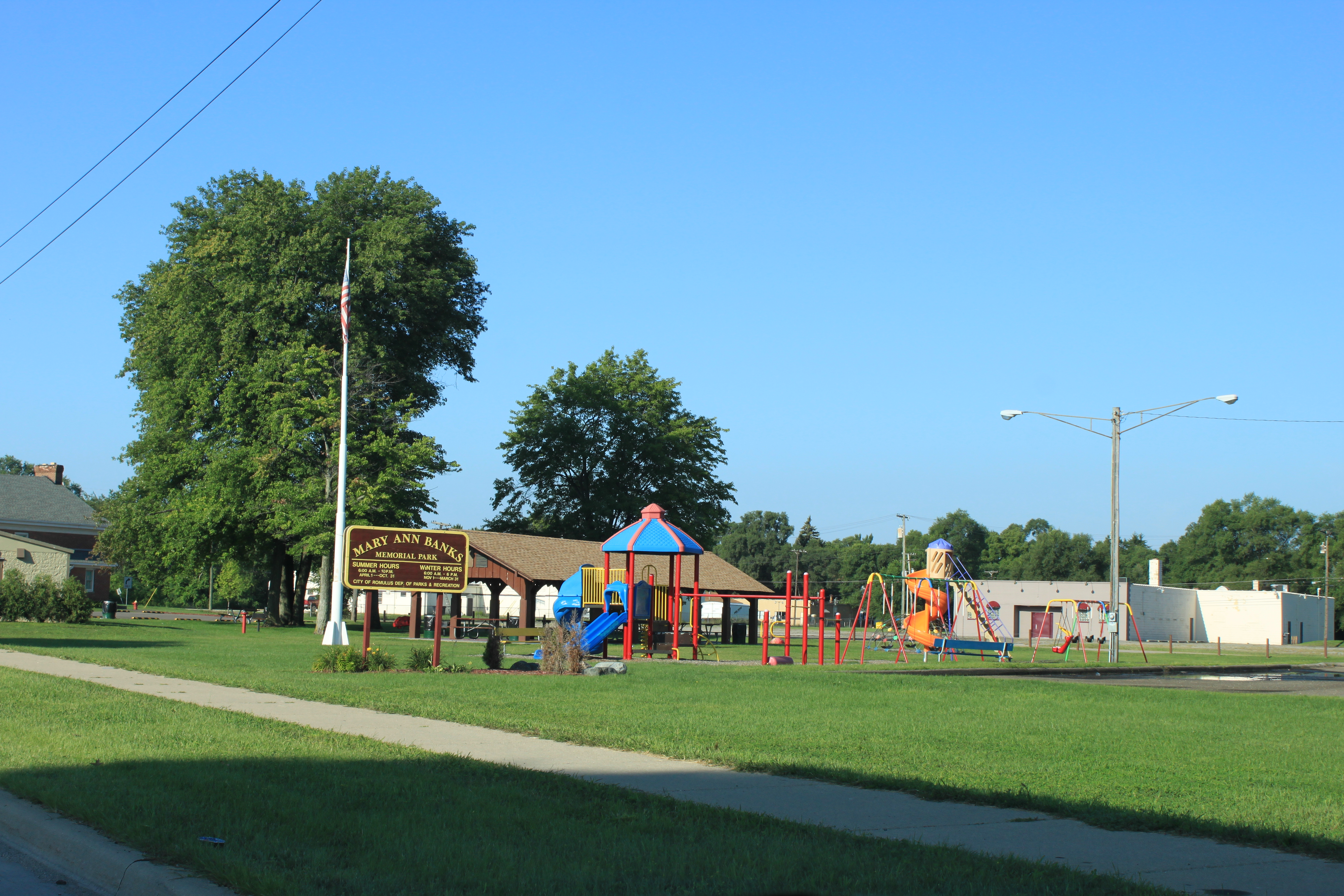 Mary Ann Banks Memorial Park, Goddard Road, Romulus, Michigan.